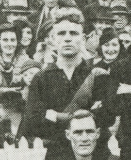 Photograph of George Bates from 1937-1939